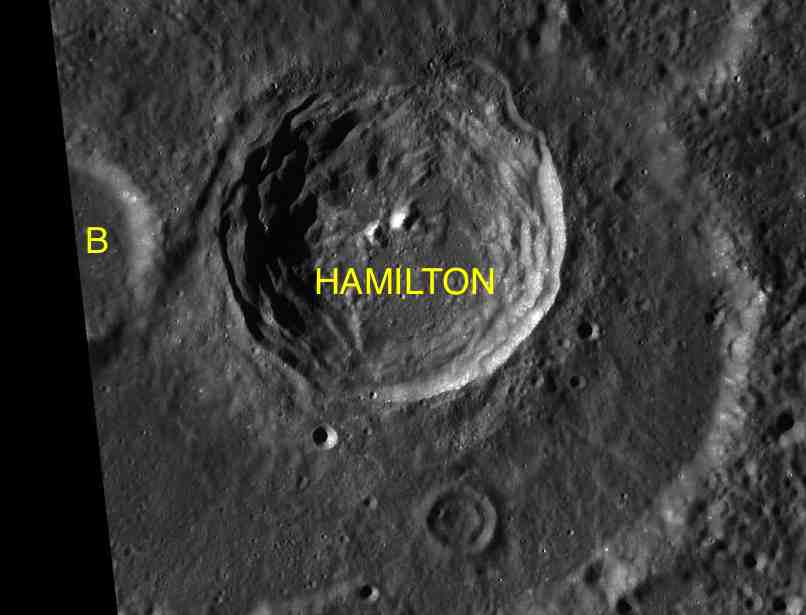 Part of the chart LAC-116 used for the presentation